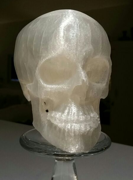 3D Printed human skull. Transparent PLA. Data from computed tomography. Patient showing Macrognathism. Height was scaled to 10cm. Print resolution 200 micron